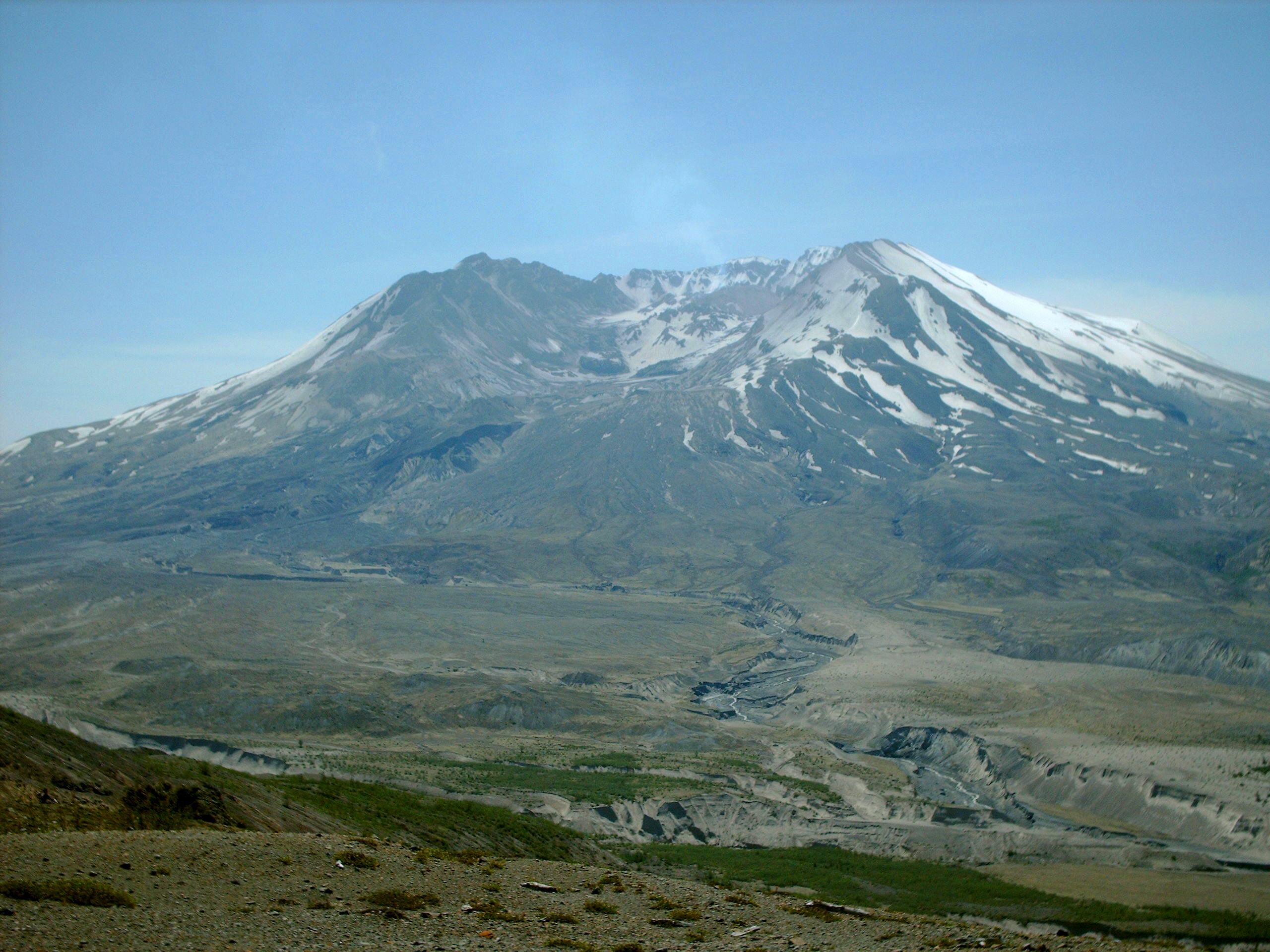 Mt. St. Helens today. Viewed from Johnstons Ridge Observatory.